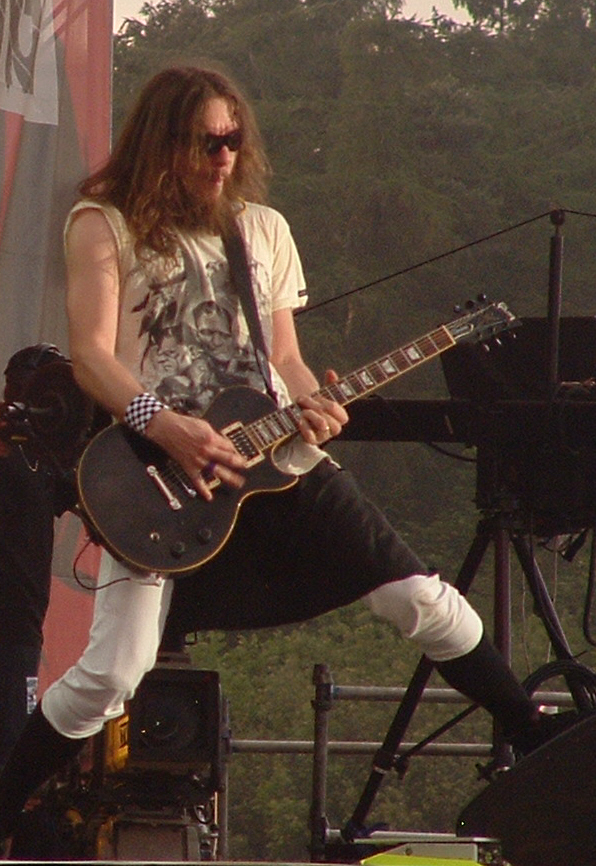 Robin Finck (not to be confused with Ron 'Bumblefoot' Thal)